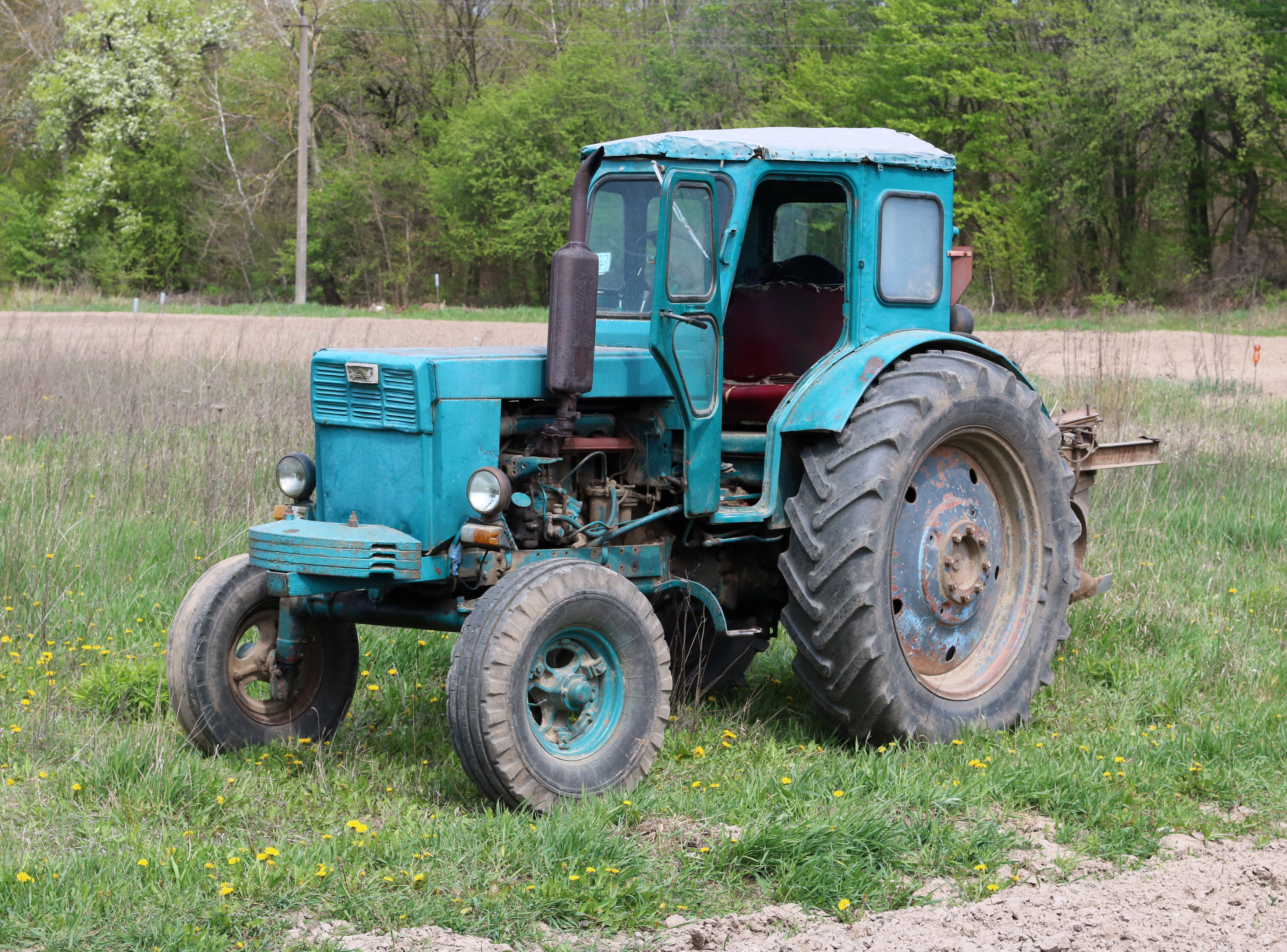 T-40A tractor. Photo taken in settlement Slavnoe near Vinnytsia, Ukraine.